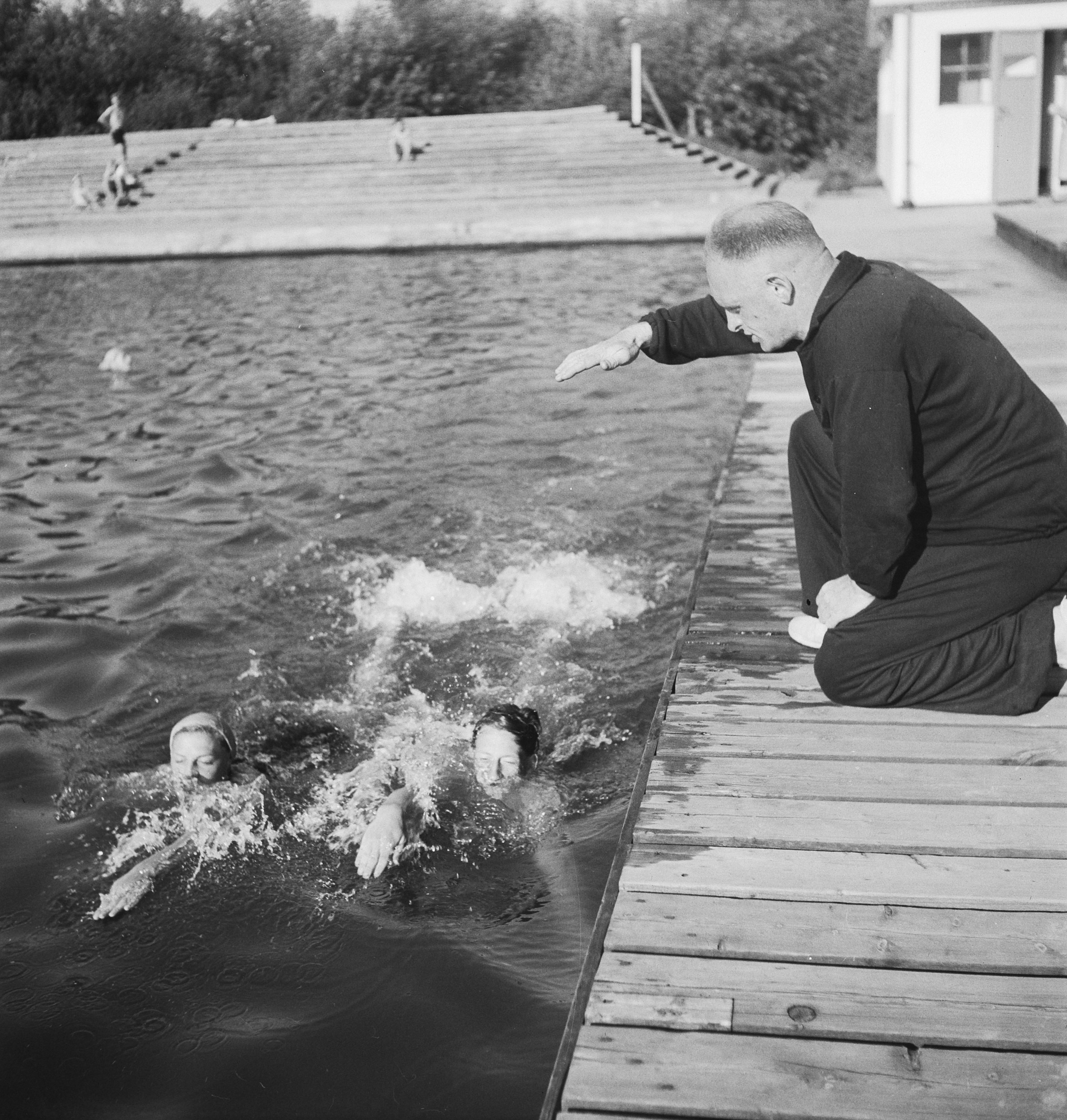 Jan Stender